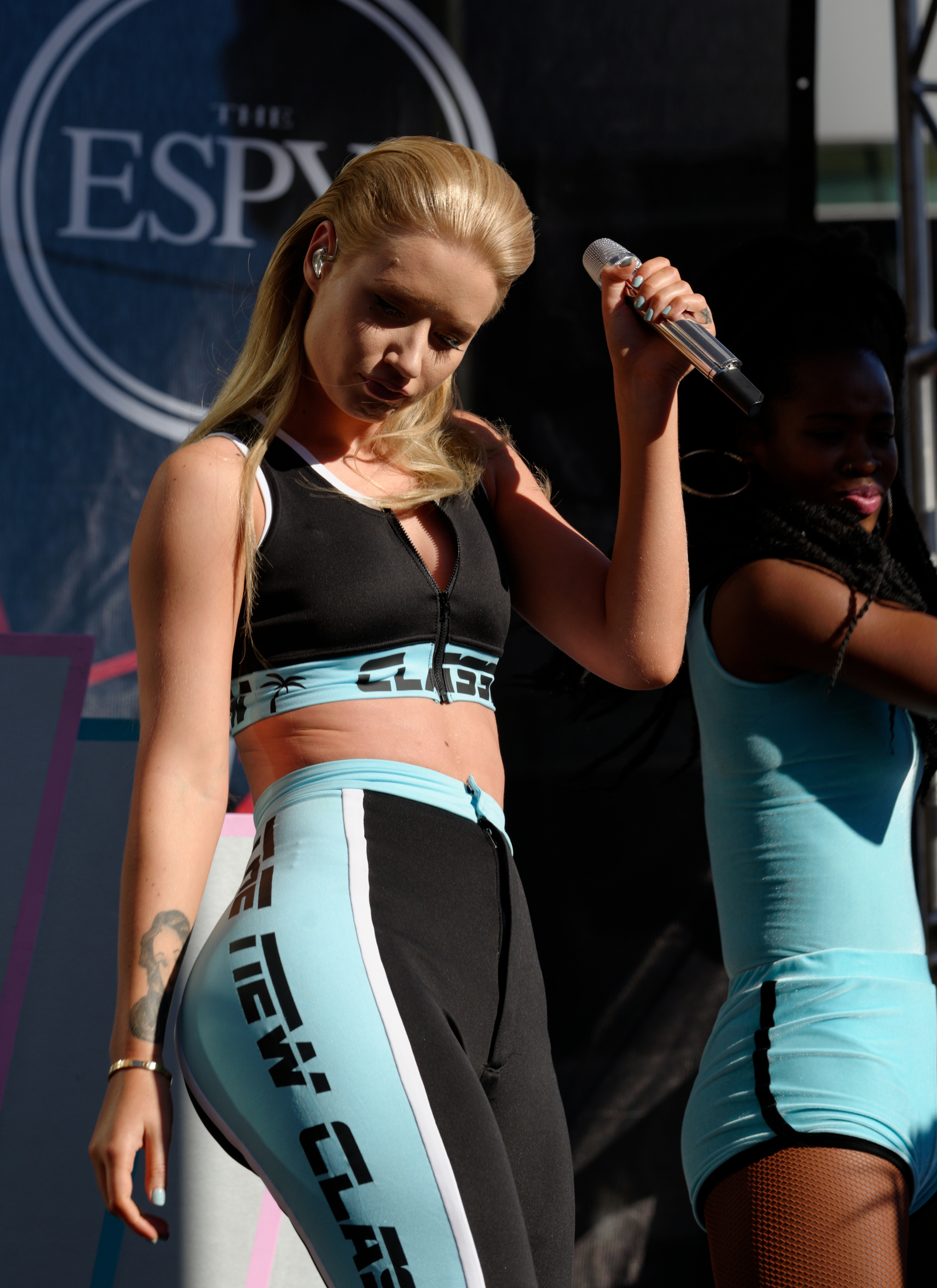 Iggy Azalea performing live at the ESPYs Experience (the ESPY Awards Pre-Show) on Nokia Plaza at L.A. Live in downtown Los Angeles California on Wednesday July 16th, 2014.